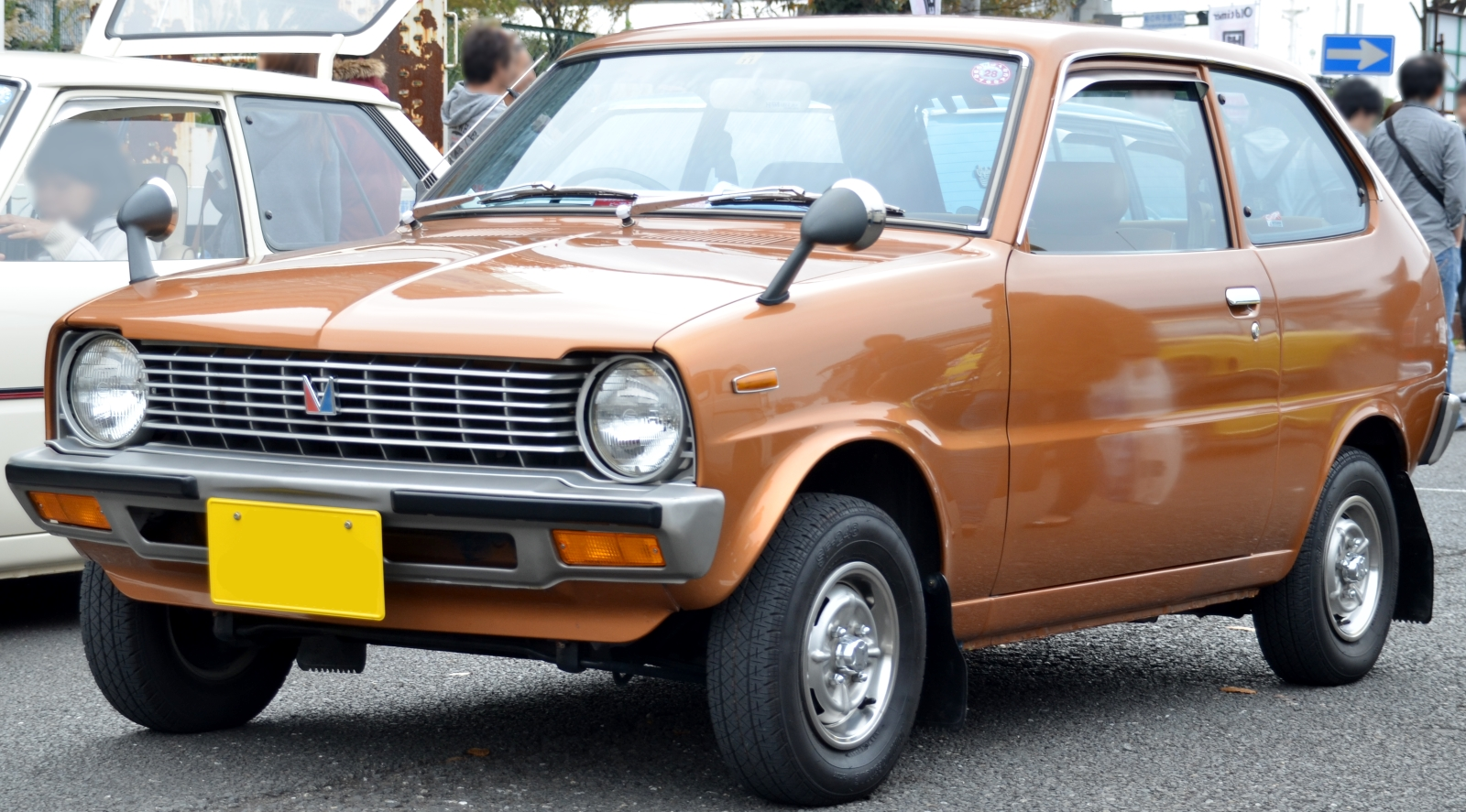 Mitsubishi Minica Ami 55 XL